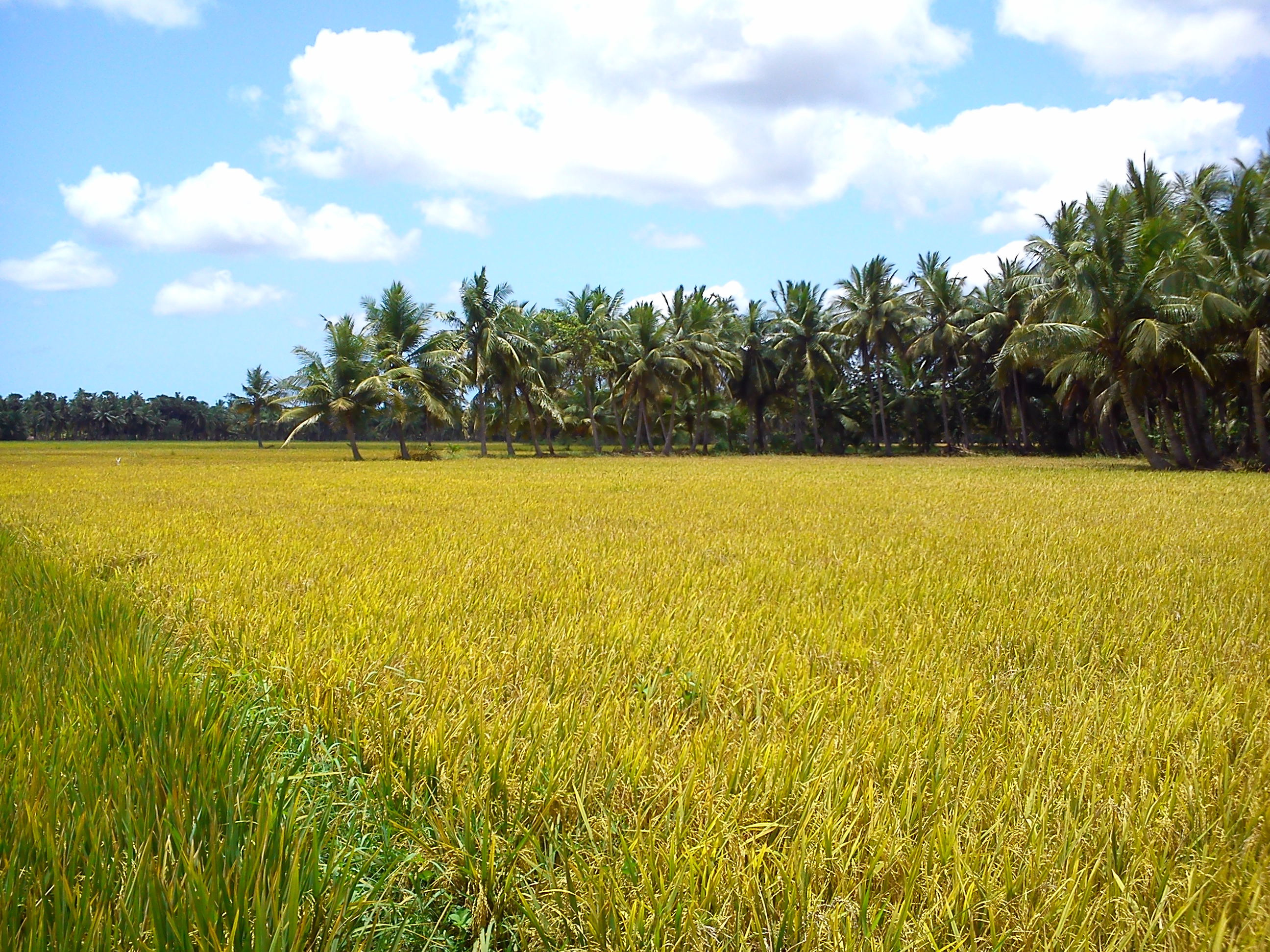 rice fields in anathavaram village, konaseema